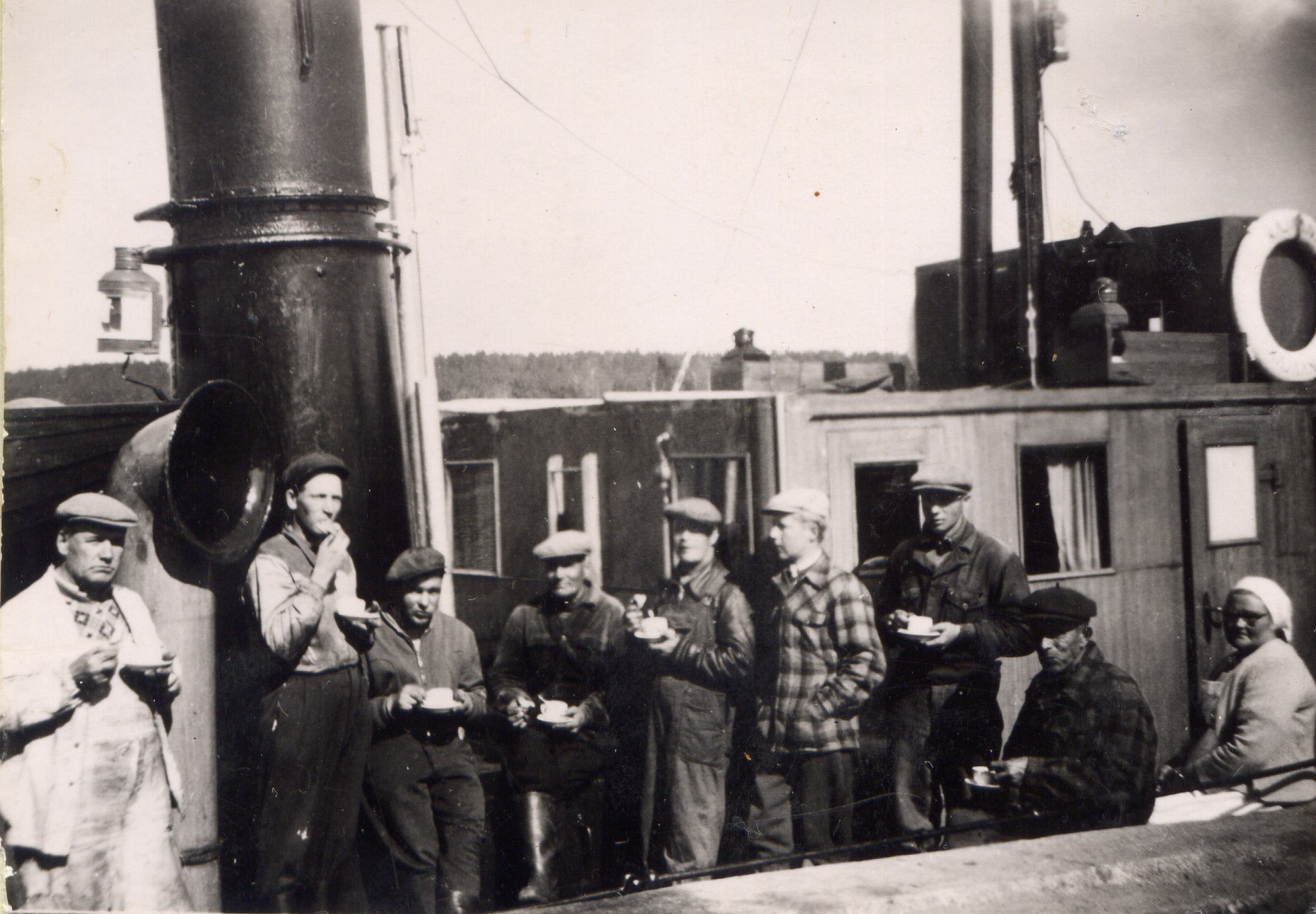 THe crew of Kajaani I having a coffee break